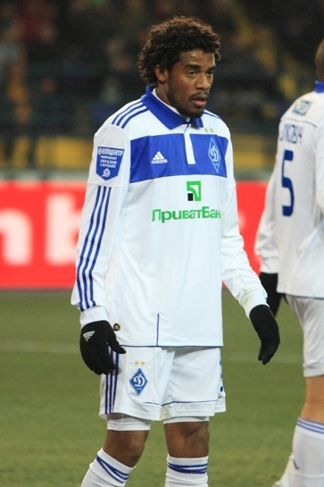 Brazilian football player Betão during match Dynamo Kyiv vs Metalist Kharkiv